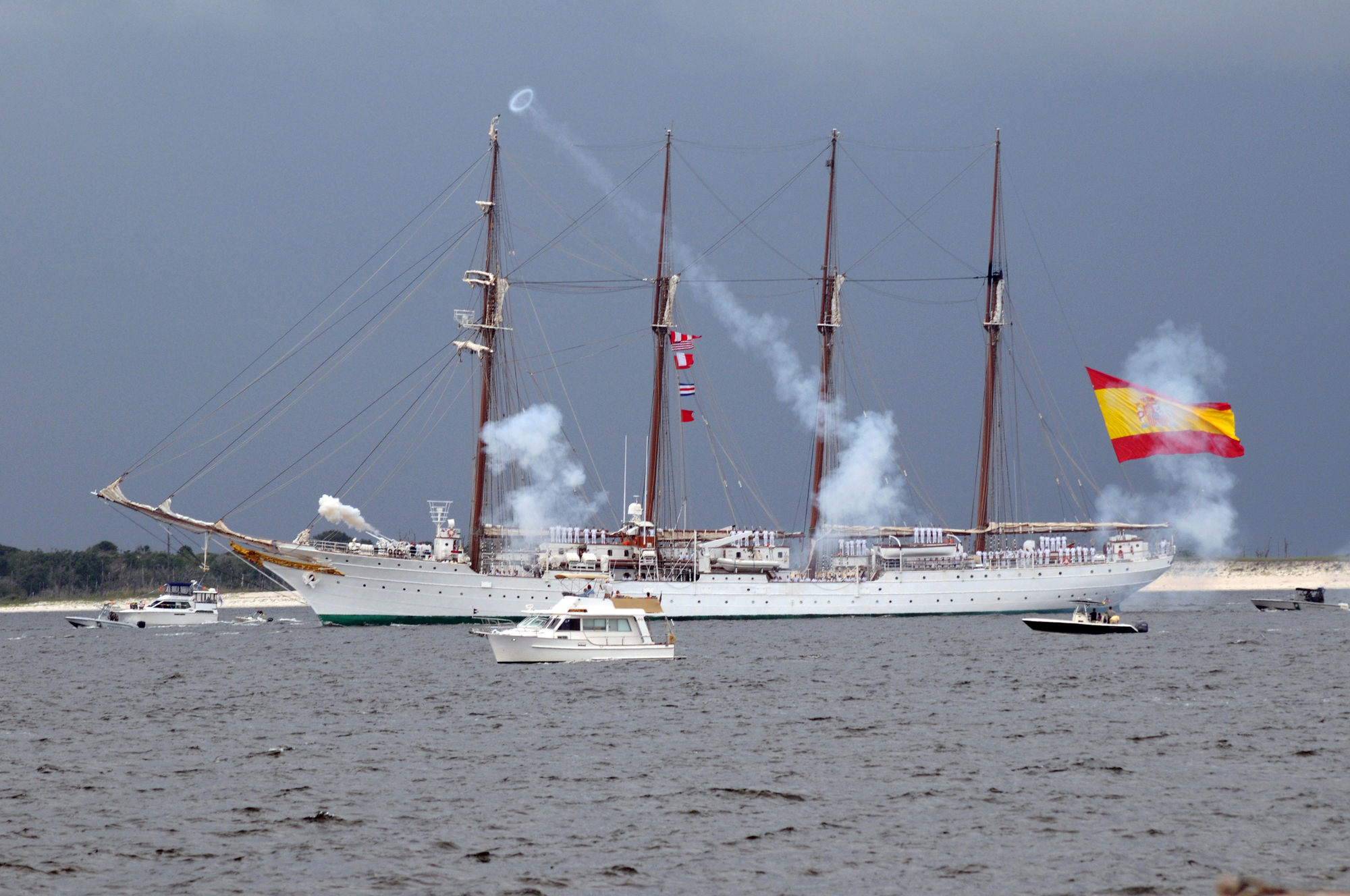 090603-N-0738H-002 PENSACOLA, Fla. (June 2, 2009) The Spanish Navy training vessel Juan Sebastian de Elcano renders a 21-gun salute as the ship passes Naval Air Station Pensacola on its way to the Port of Pensacola. Elcano initiated the gun salute and members of the NAS Pensacola weapons department returned the salute. The Elcano was visiting Pensacola as part of the city's 450th anniversary.